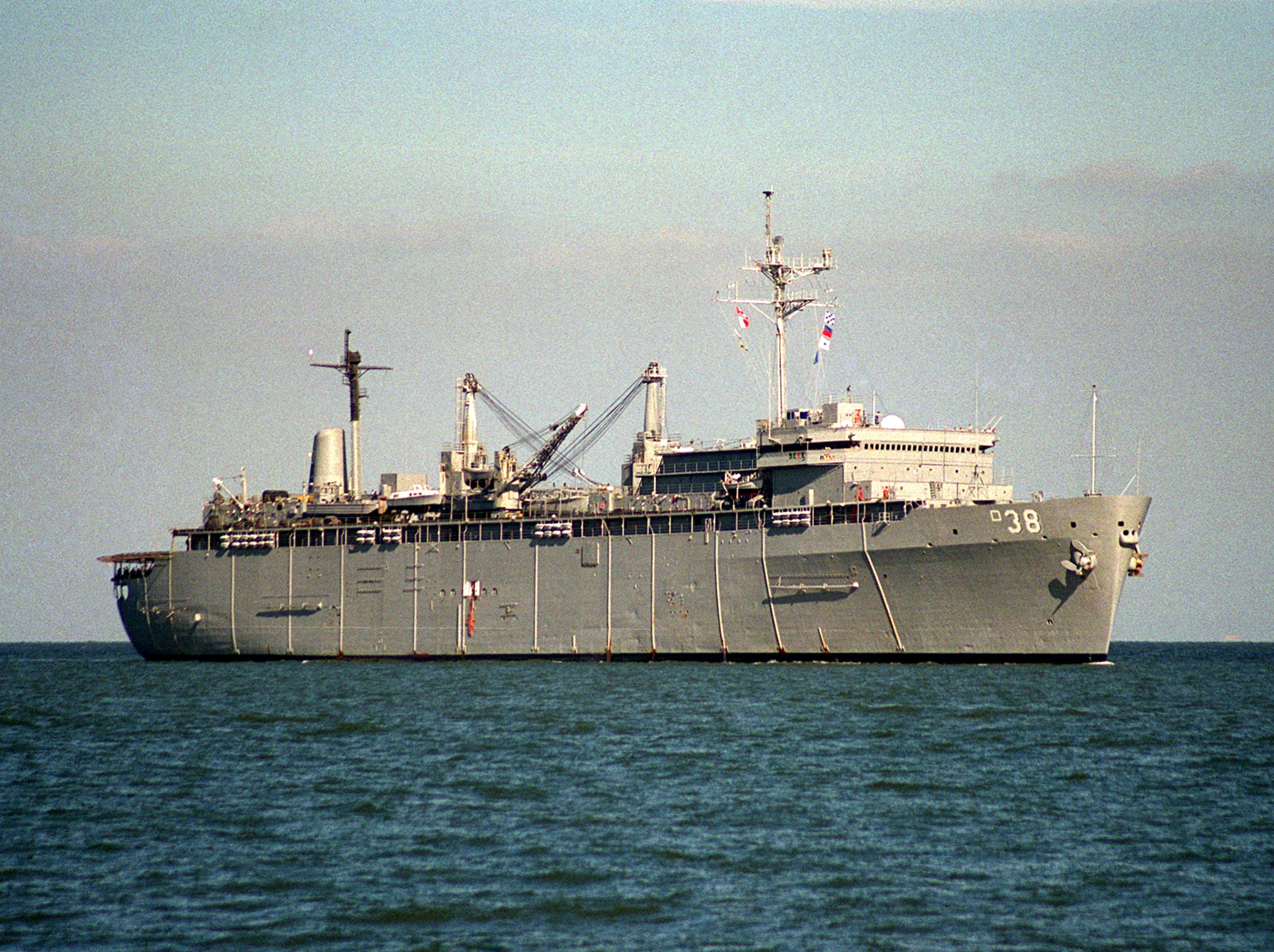 The U.S. Navy destroyer tender USS Puget Sound (AD-38) entering Hampton Roads, Virginia (USA), on 20 August 1995, after five days at sea to avoid the effects of Hurricane Felix.